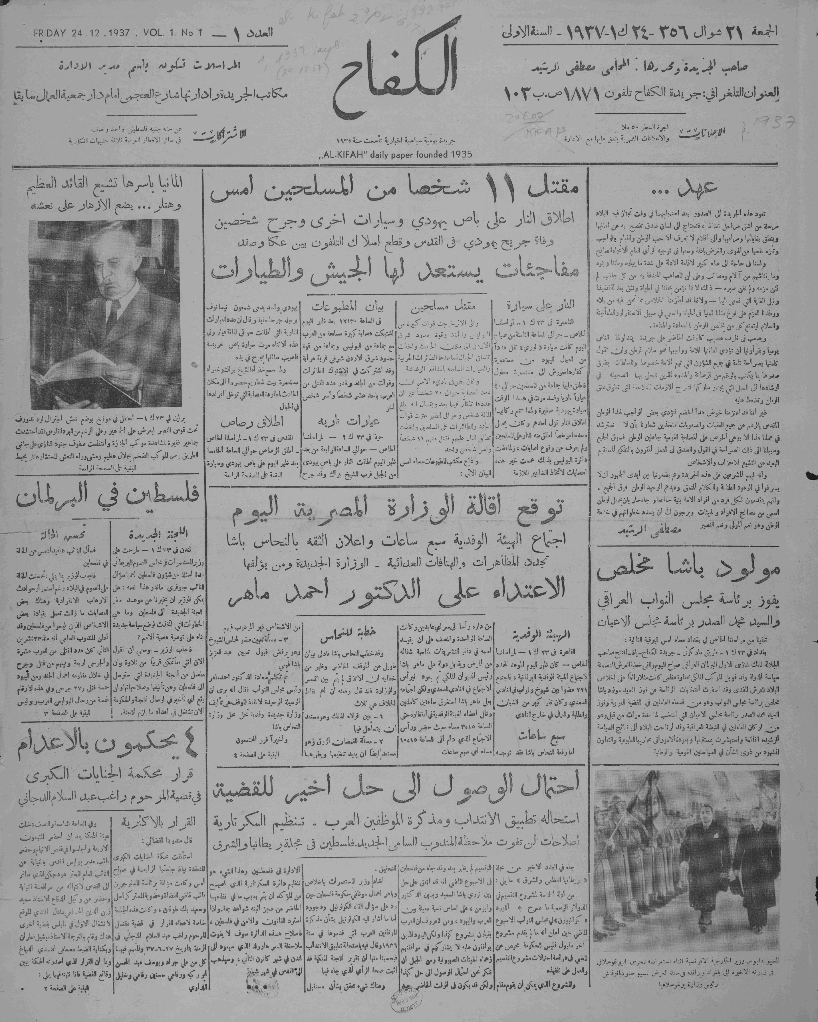 Palestinian newspaper